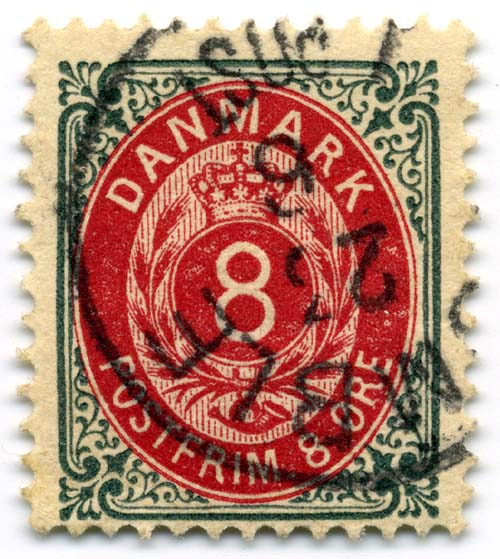 Scan of Denmark 8-ore stamp of 1895